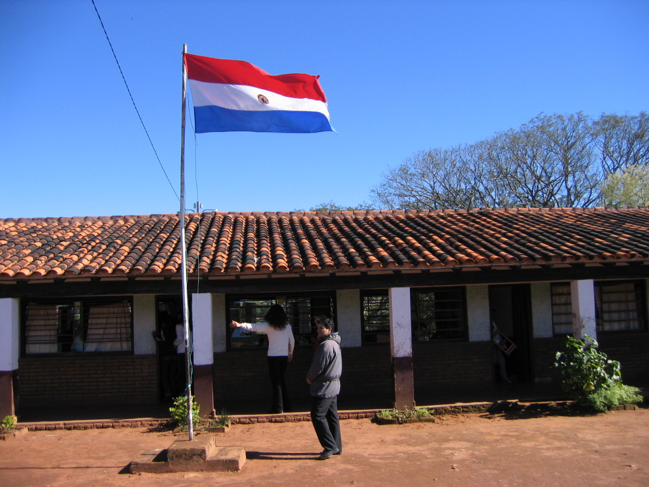 School in Misiones